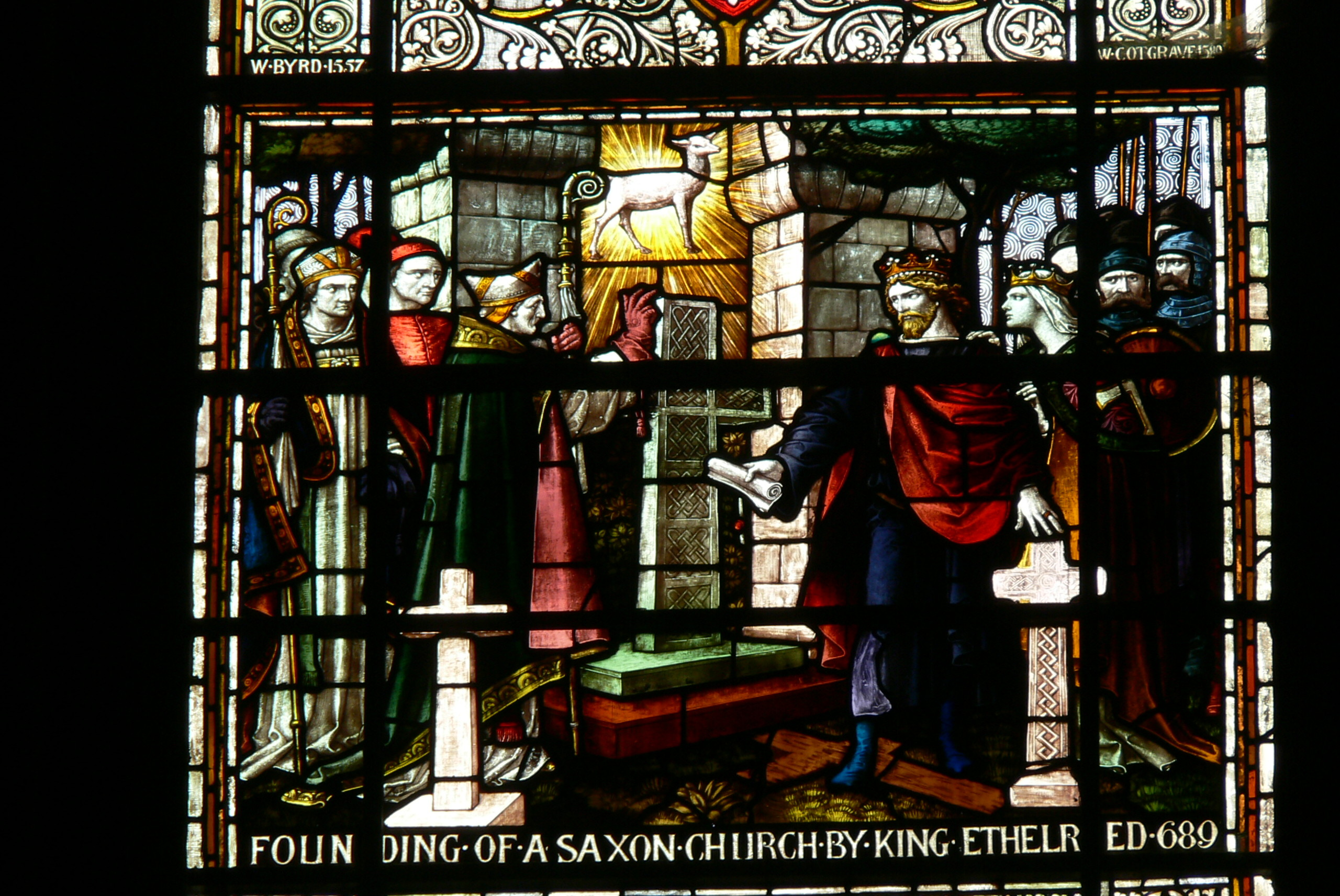 St John's Church, Chester ( England ). Westminster Window ( 1890 ): Foundation of the church by king Ethelred of Mercia 689.